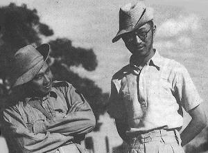 Tan Chong Tee and Lim Bo Seng during their training stint as members of the British Allied Force 136 in India.